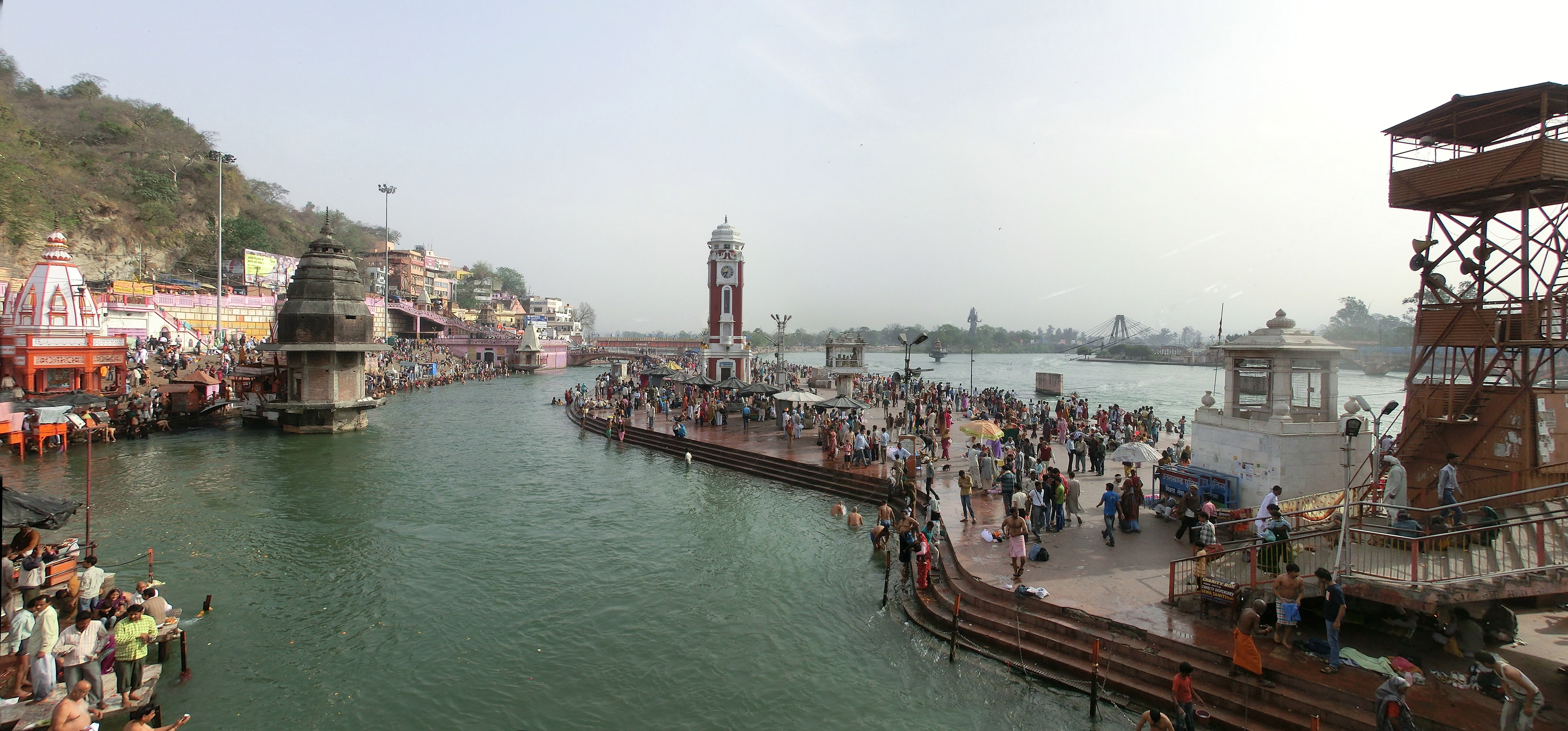 A classic view of the heart of Hardwar, pilgrim town for Hindus. The holiest place in the town where pilgrims congregate in huge numbers throughout the day and take a dip in the holy ganges river diverted from the main river for their convenience. In the evening oil lamps mouned on leaves are lit and allowed to float in the ghat.